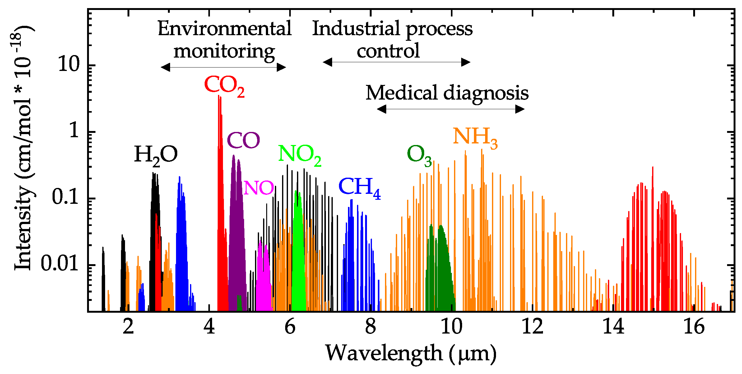 Mid-infrared absorption spectra of some industrially-useful gases, data from HITRAN